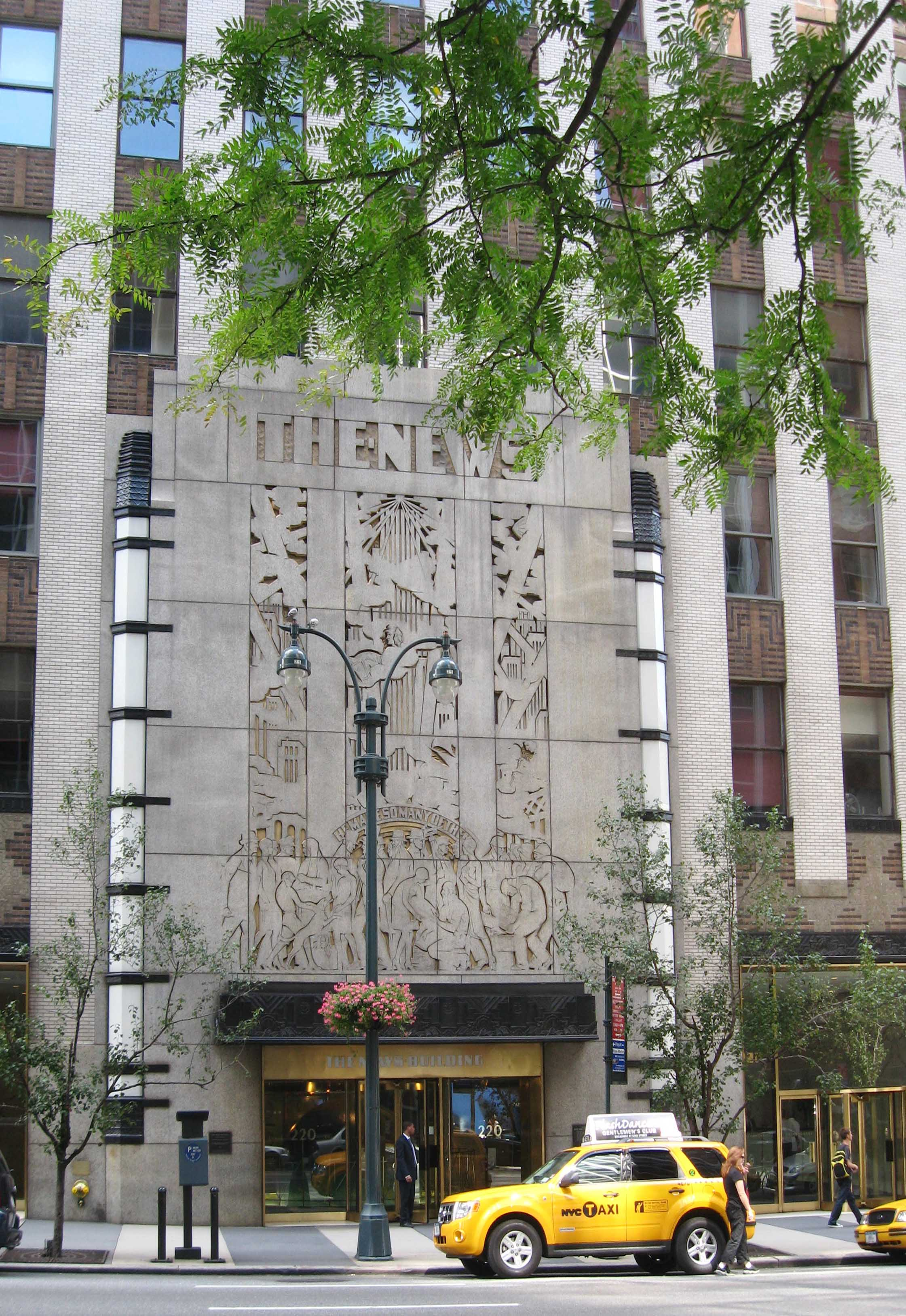 Looking southwest across 42nd Street at door area of New York Daily News building